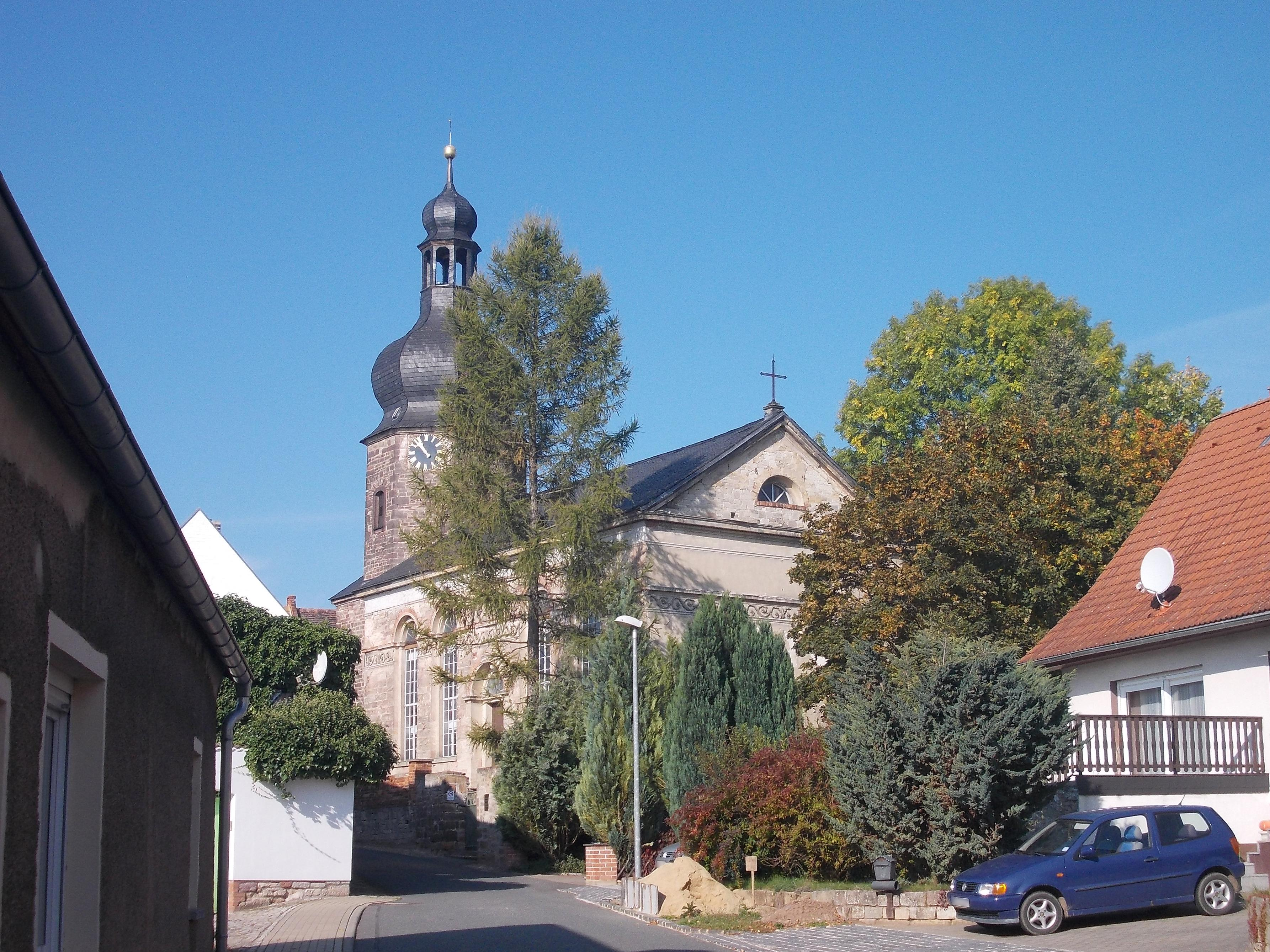 St. Mark's church in Niederschmon (Querfurt, district: Saalekreis, Saxony-Anhalt)